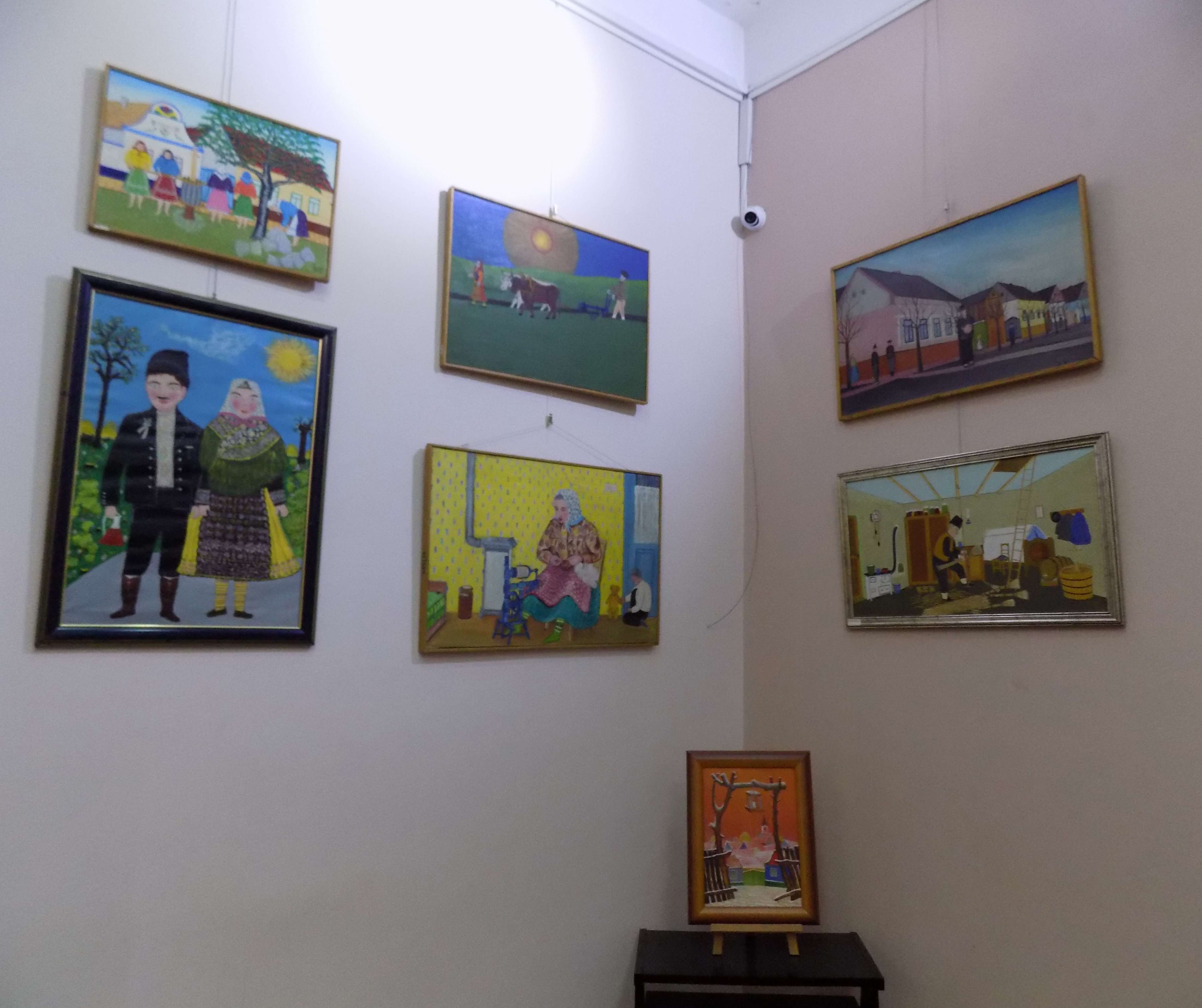 Paintings of the ancestor of Kovačica naive painting in the Gallery of Naive Art in Kovačica